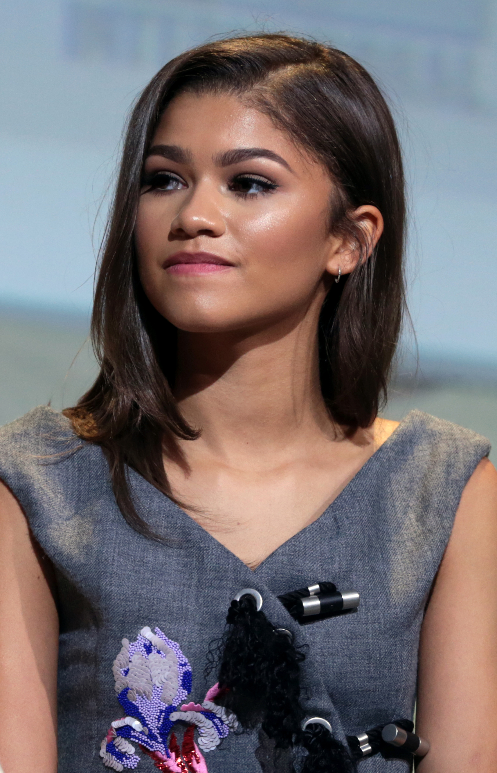 Zendaya speaking at the 2016 San Diego Comic-Con International in San Diego, California.